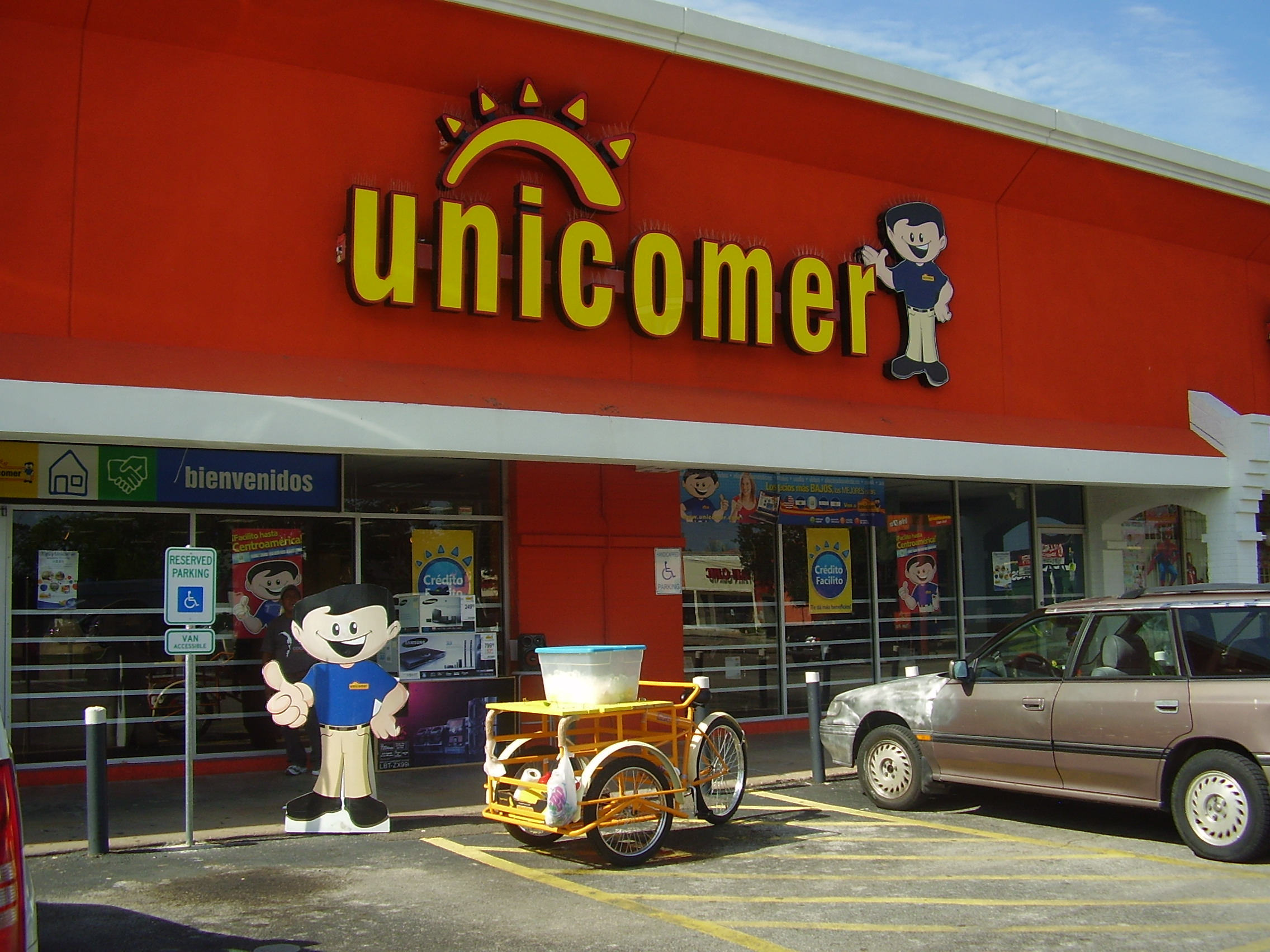 Unicomer store, Gulfton - Bellaire location - 5626 Bellaire Blvd Houston, Tx 7708